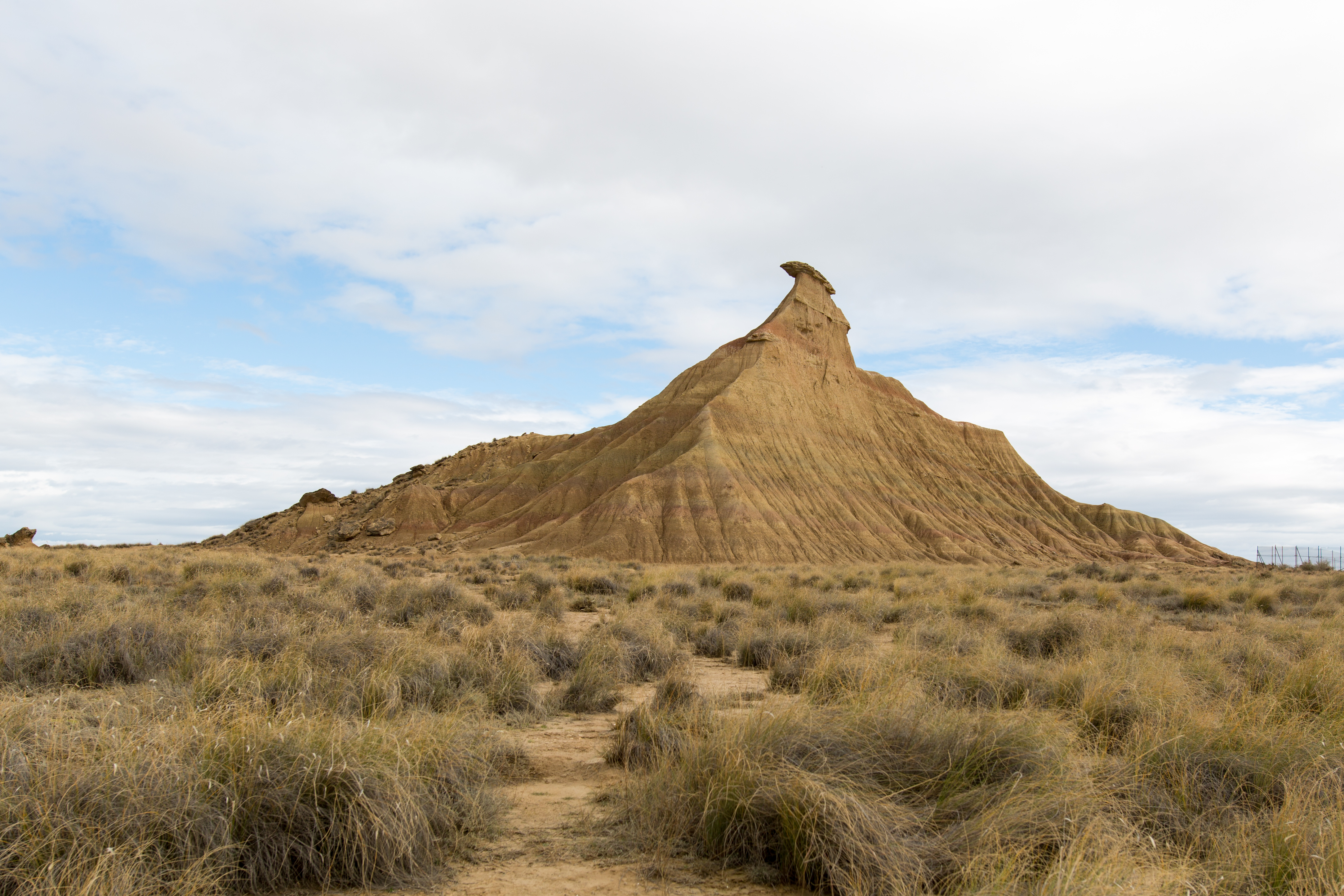 Bardenas